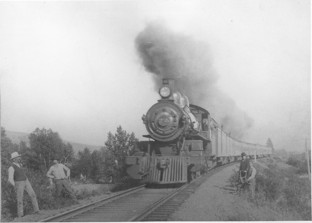 Train No. 255 of the Northern Pacific approaches Thorp, Washington.